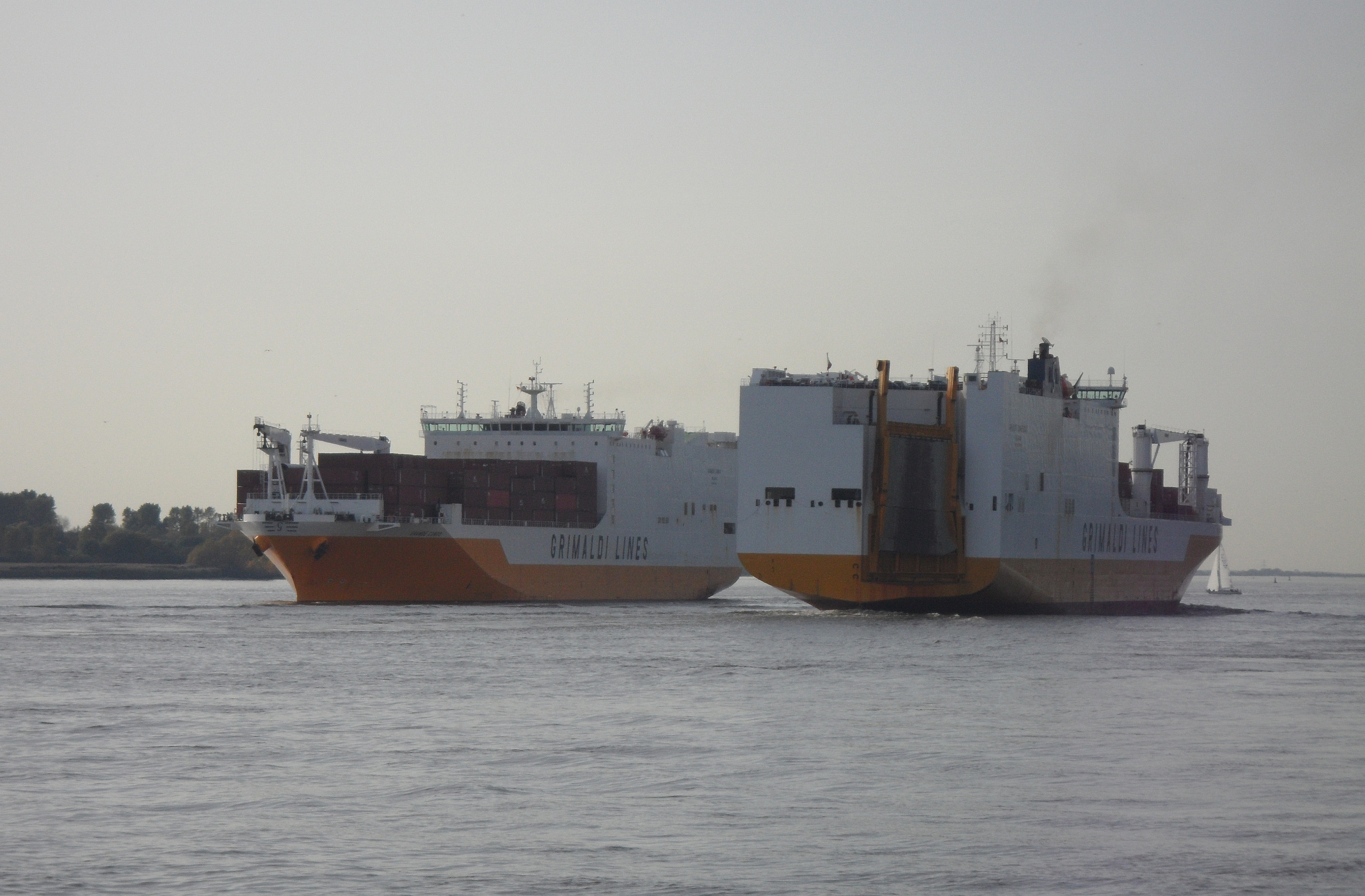 Grimaldi Lines - The ConRo ships Grande Cameroon (ship goes out) and Grande Congo (ship comes in) on the river Elbe at the same level of Blankenese on 19-10-2012